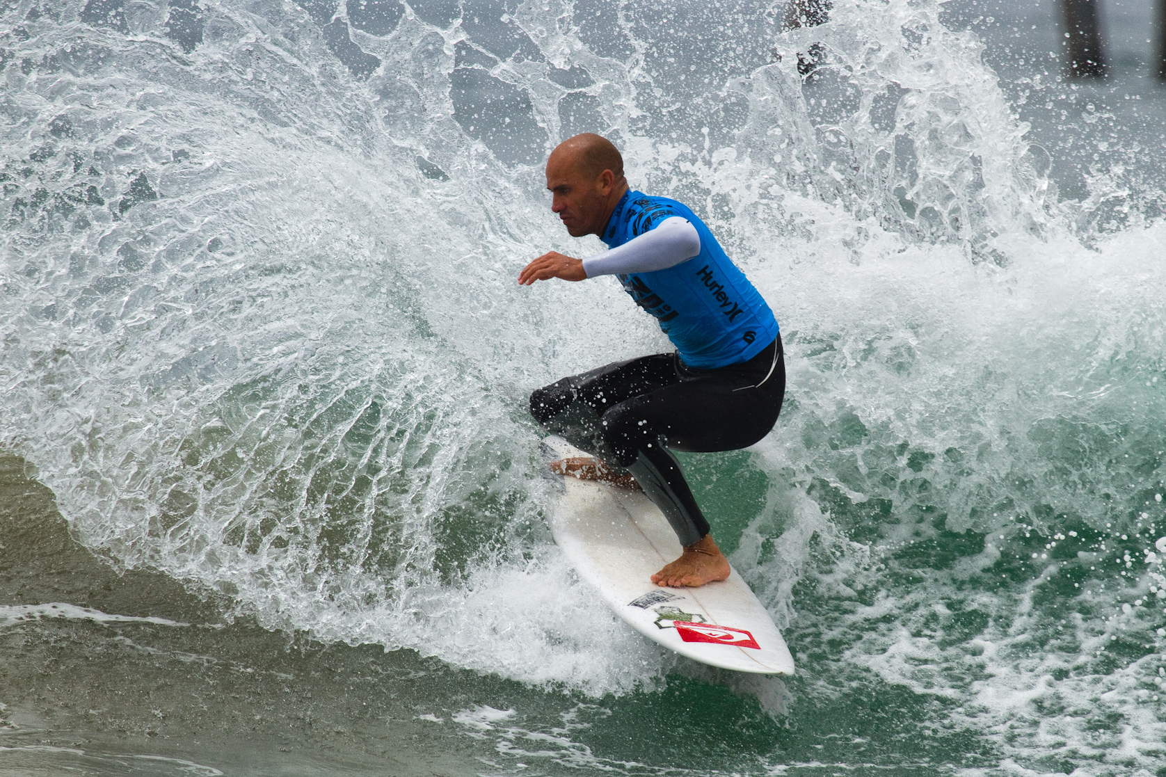 Went today to the US Open of Surfing in Huntington Beach, just 45 minutes south of where I live. I don't know much about surfing but this guy is awesome. ISO 160, 400mm, f7.1, 1/1250.